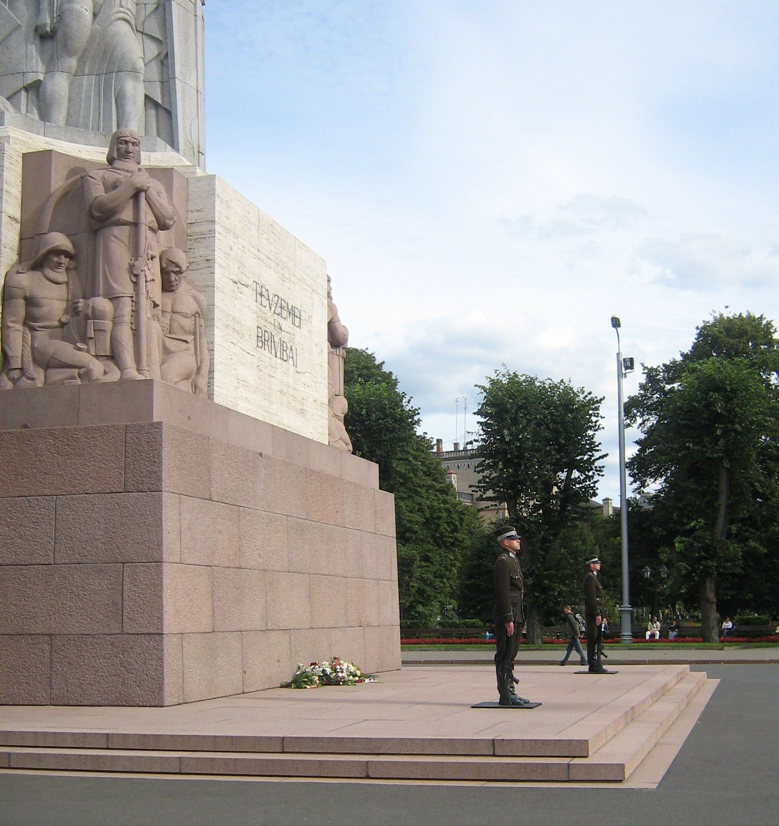 Monument of Freedom honour guard